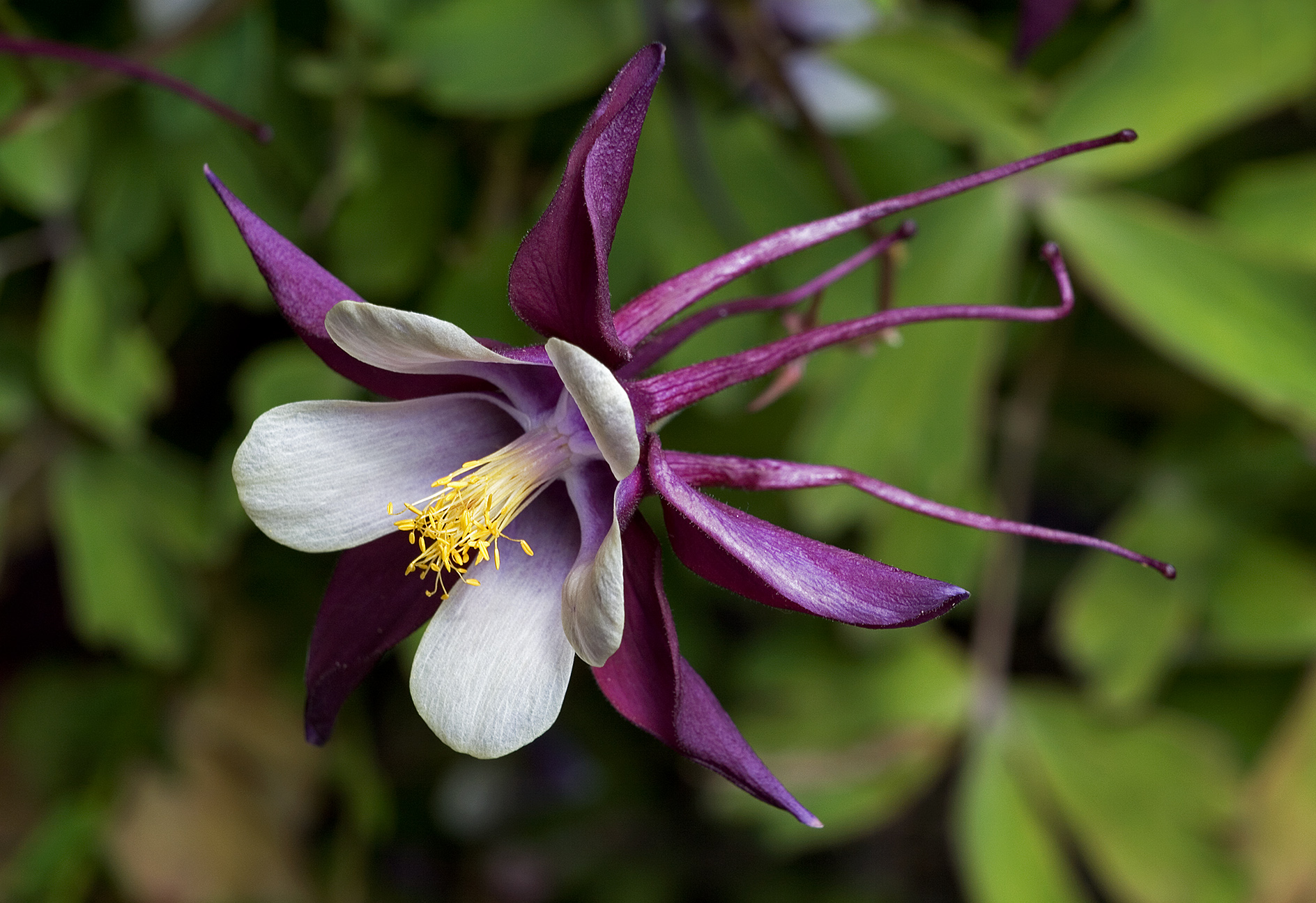 Aquilegia columbine "Magpie" cultivar in Tasmania, Australia Camera data Camera Canon EOS 400D Lens Canon EF 70-200mm f4L w/ 25mm extension tube Flash Shoot through umbrella left Focal length 168 mm Aperture f/10 Exposure time 1/160 s Sensivity ISO 100